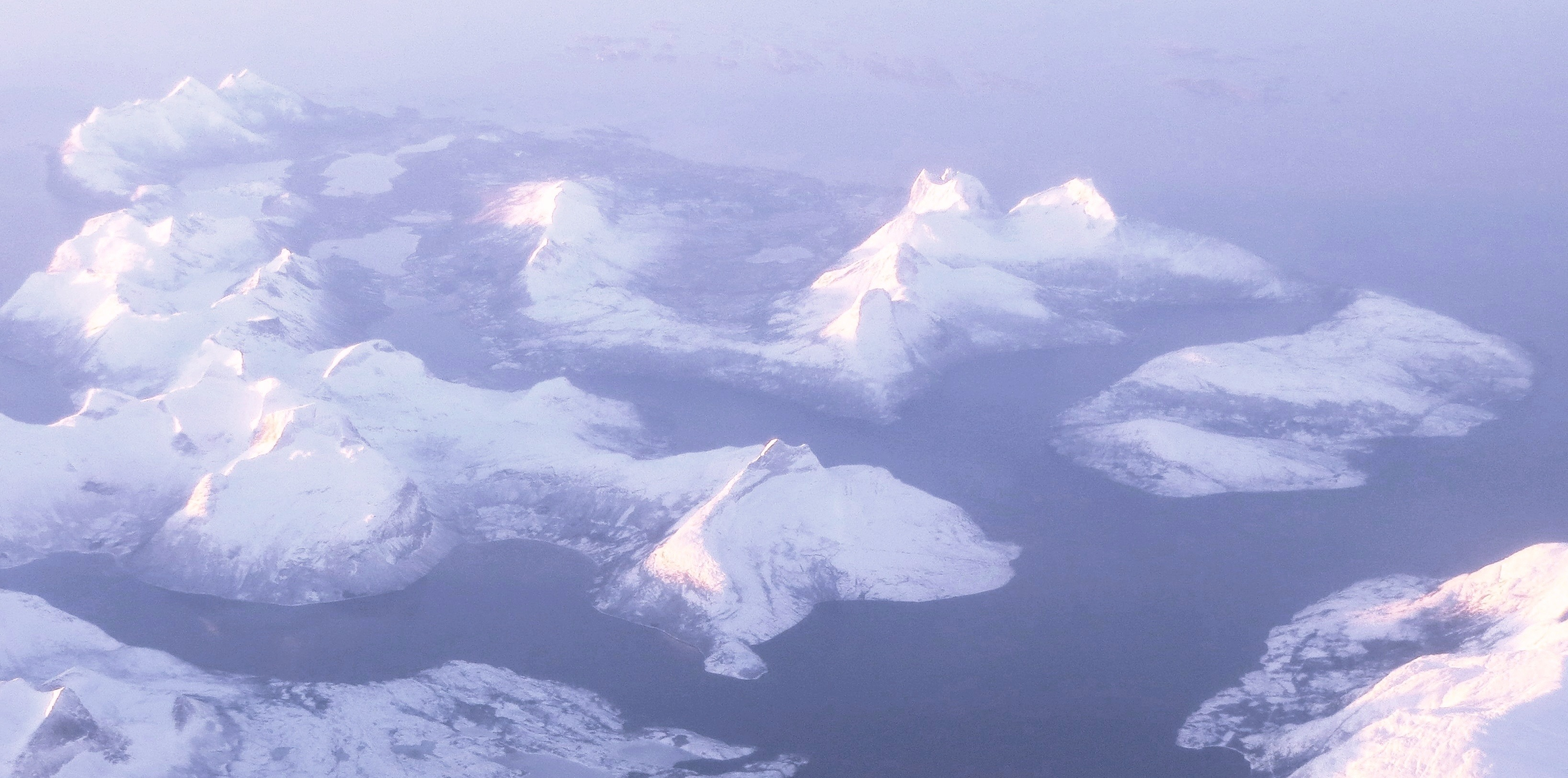 Aerial view of Kjerringøy in Bodø municipality, Norway. The photo is taken from east.